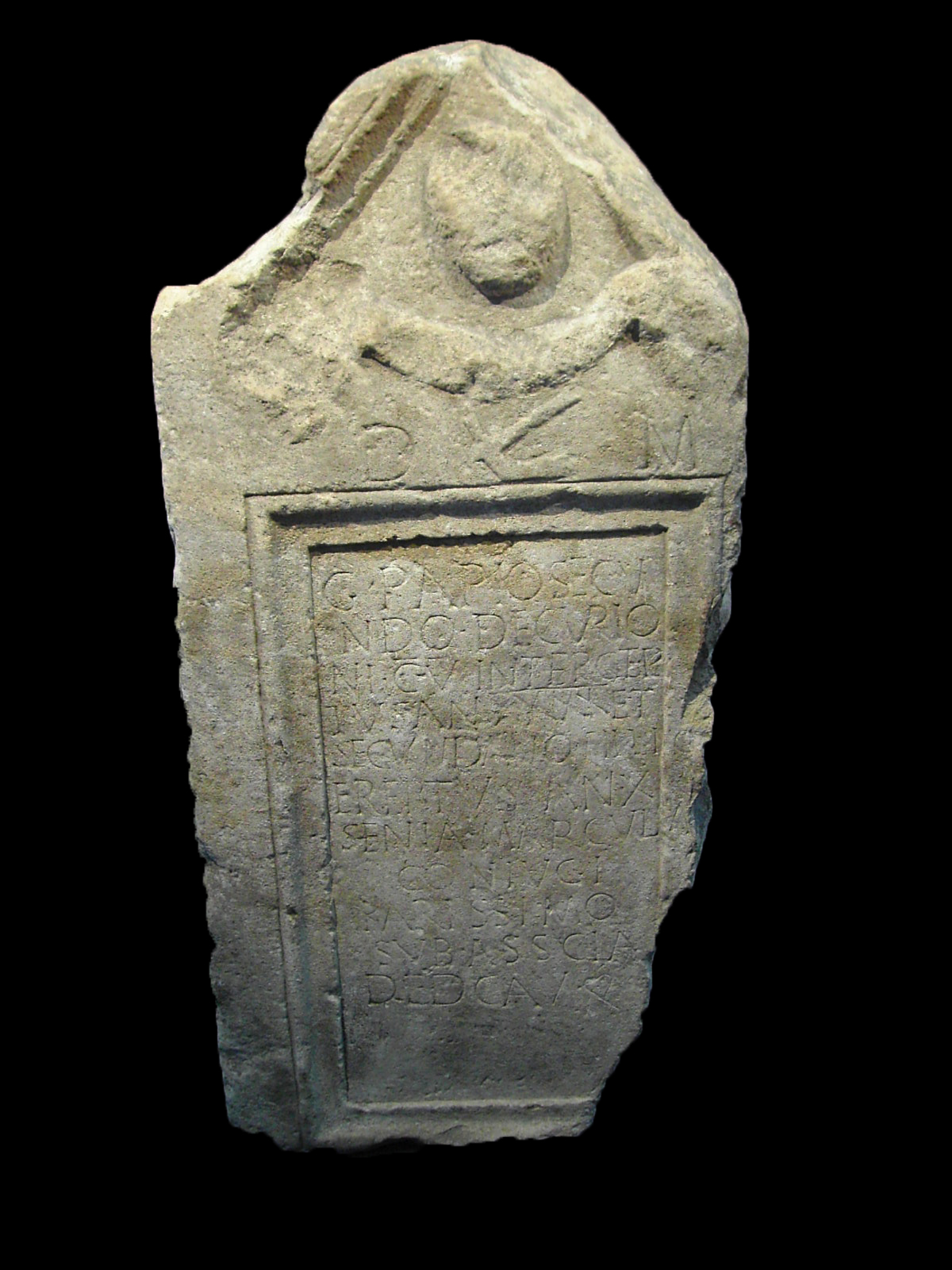 Tombstone of Gaius Papius Secundus, a decurion of Vienne (just south of Lyon, France) who died at age forty, and of his ten-year-old son, Secundanus. The inscription is from Secundus' wife. CIL XII, 2246. For a full description, see the page for Milky's original image